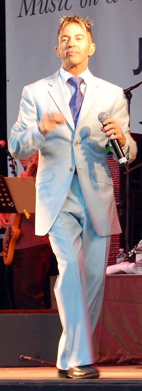 Chris Hamill aka Limahl at Audley End, Essex